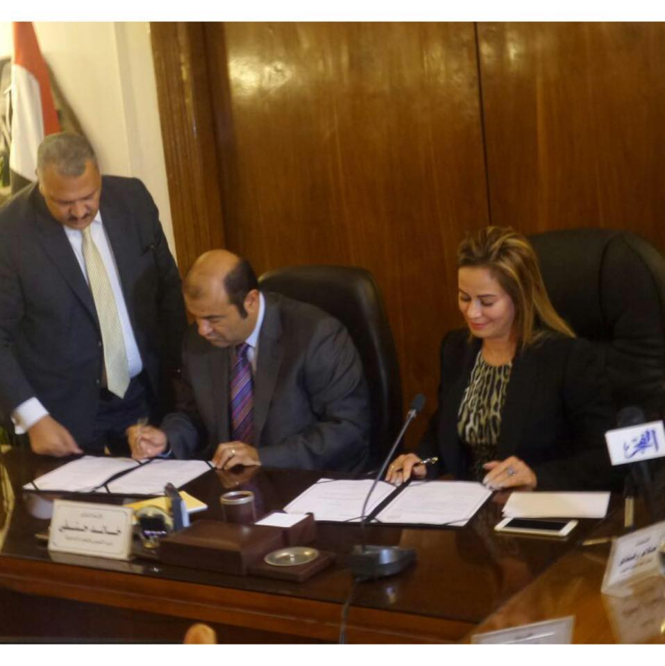 Iman Mutlaq signed a cooperation protocol with Egypt's Supply Minister Khaled Hanafi, on behalf of a consortium of three international companies, namely France's Sabika, UK's Sigma and Australia's Injot, which are specialised in setting up commodity bourses. The consortium of global companies is planning to inject investments of around $35-50 million to establish a grain exchange in Egypt.